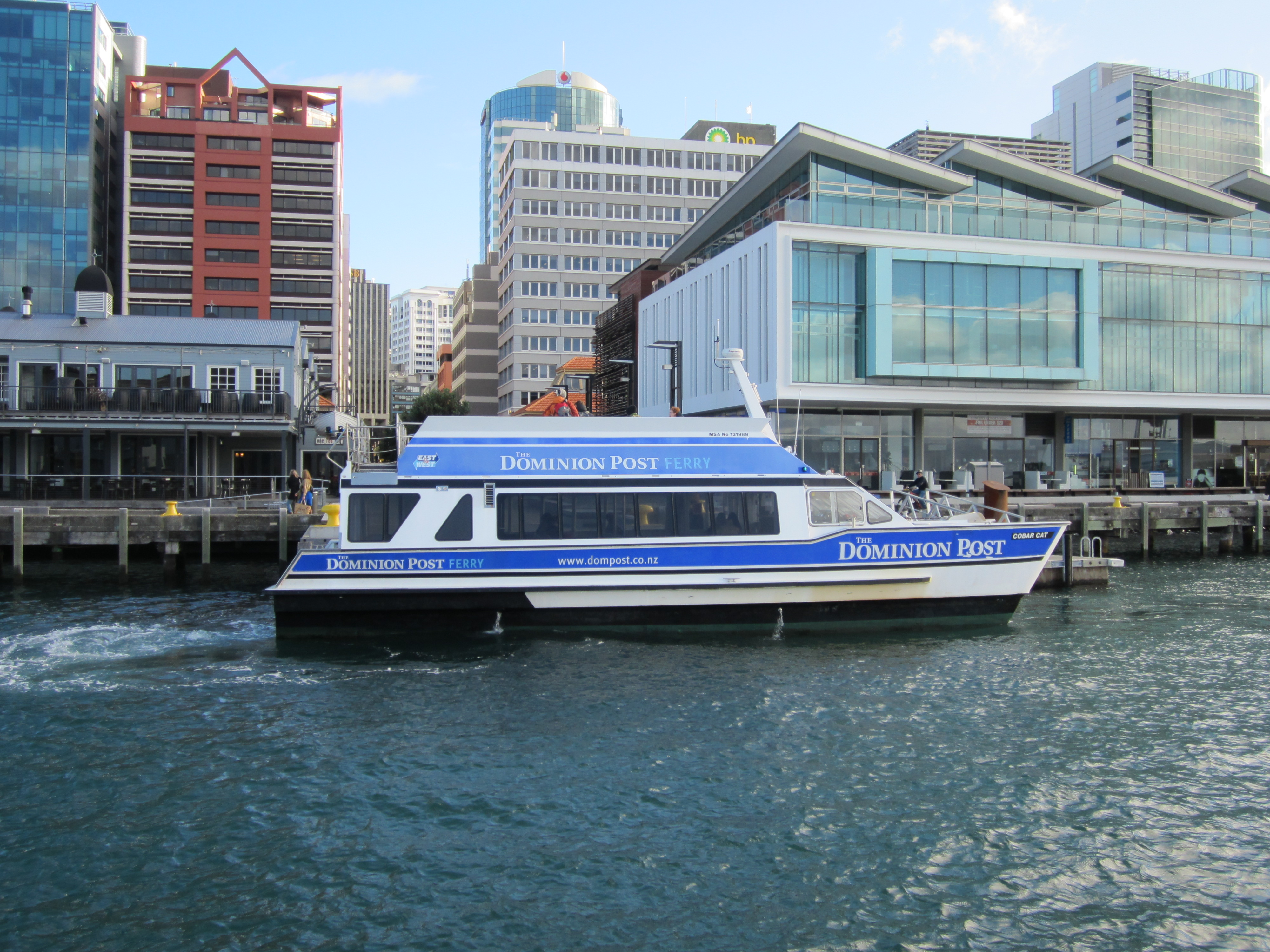 The ferry Cobar Cat about to dock near Wellington CBD The original Cobar was the steam yacht of the General Manager of The Great Cobar Copper Mining Company Limited in NSW Australia. In retirement it became an Eastbourne ferry and the name has since been re-used for successors.